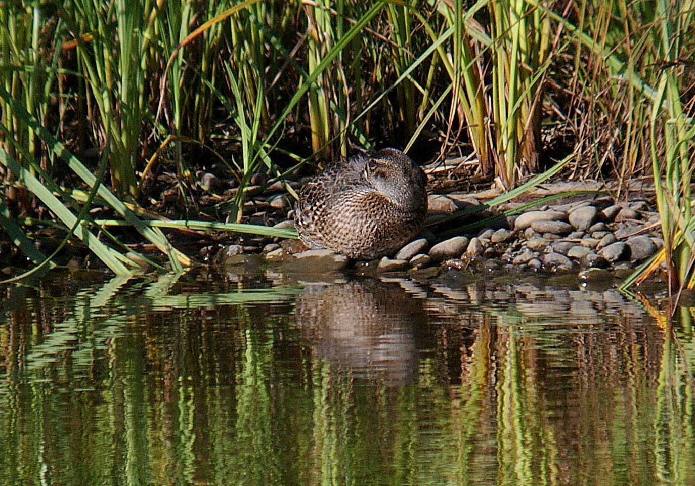 ABA AREA BIRDS: My Photo "Life List"